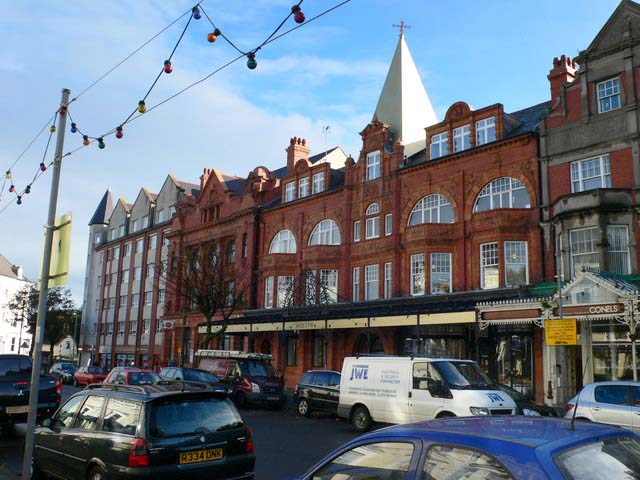 Oriel Mostyn art gallery on Vaughan Street, Llandudno, North Wales, pictured in 2010 after its refurbishment. Gallery originally built for Lady Augusta Mostyn in 1901.